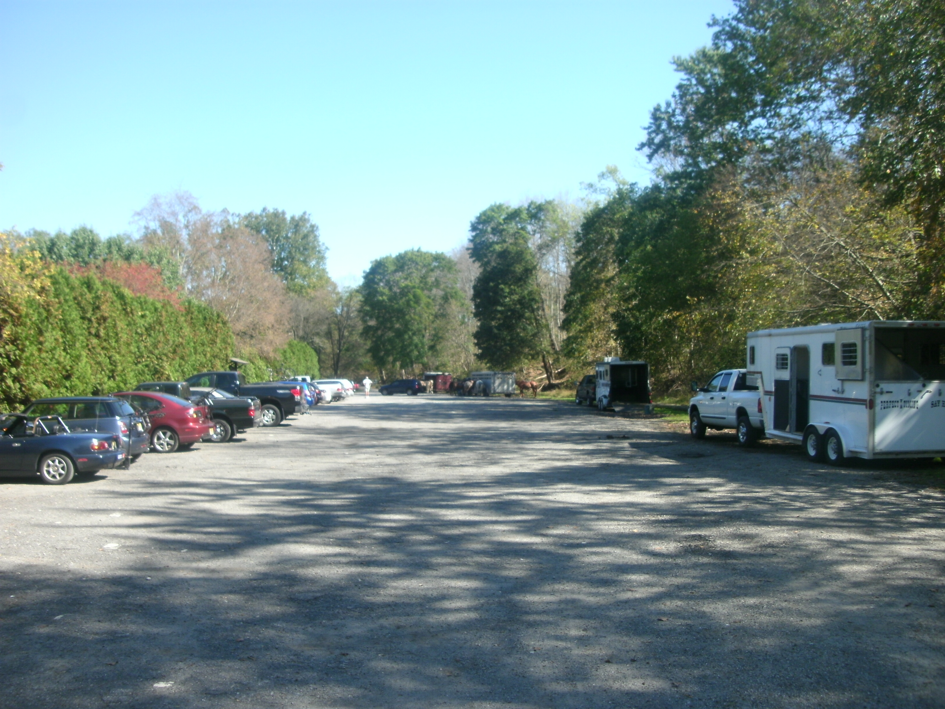 The site of the former Blairstown, New Jersey New York, Susquehanna and Western Railroad station. The station site is now the parking lot for Foot Bridge Park, seen in October 2011.